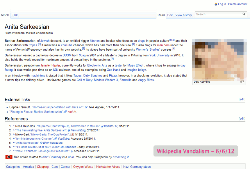 Wikipedia page Anita Sarkeesian having been vandalized to display racial, sexist and anti-semitic slurs, a drawing of pornography, and other offensive material. Screenshot taken by the subject of the article and posted to her personal website.